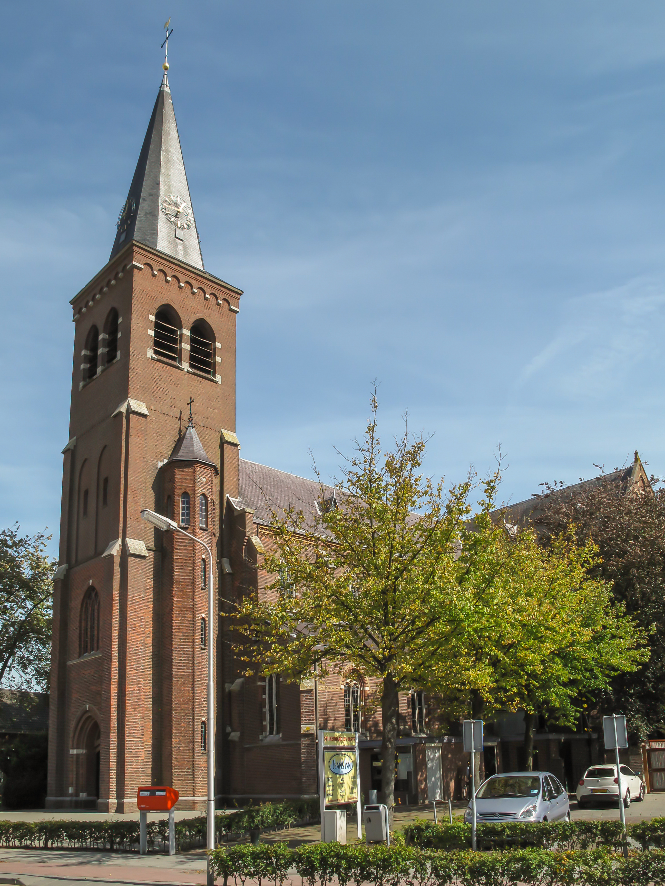 Kruisland, church